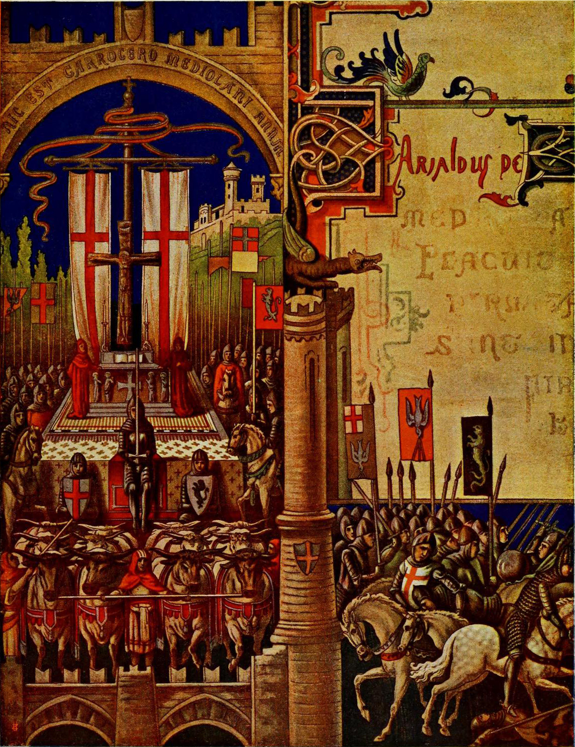 The carroccio depicted in an ancient miniature. The caption states that this plate is reproduced from Monumenti della prima metà del secolo XI